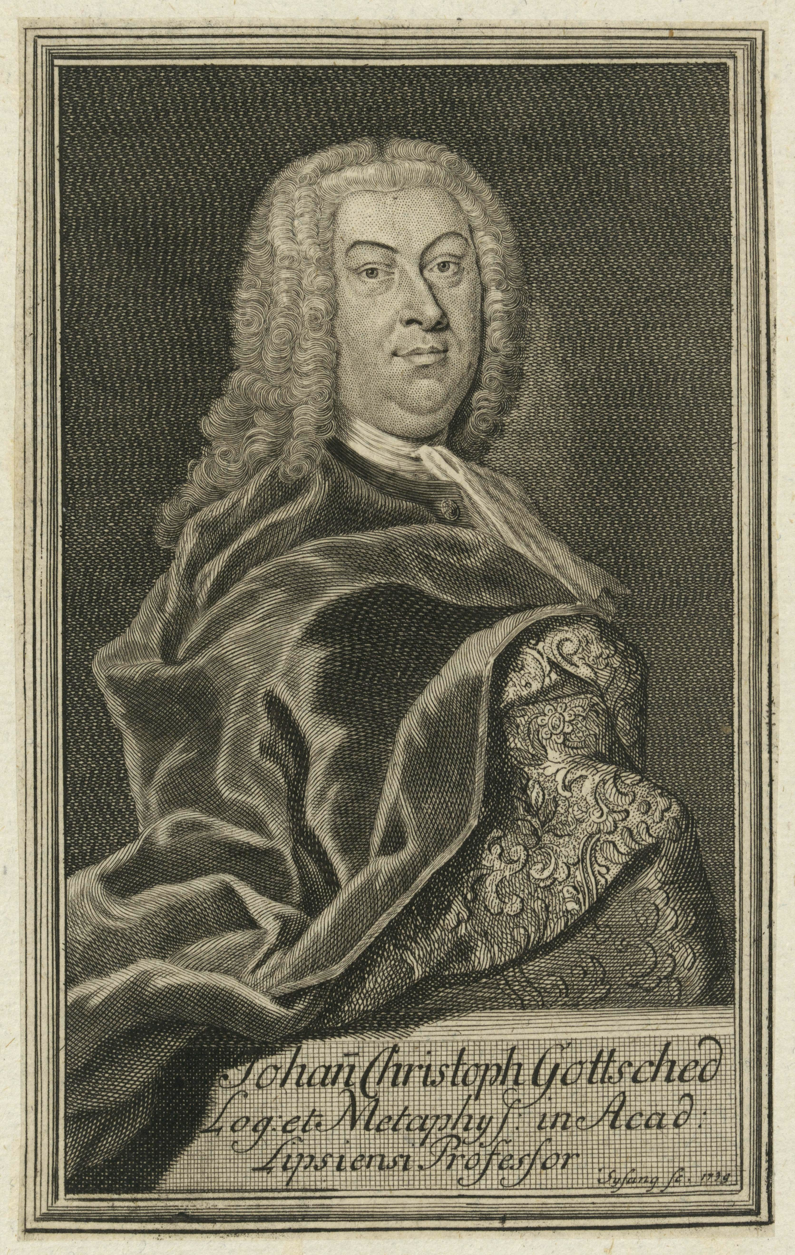 Depicted person: Johann Christoph Gottsched